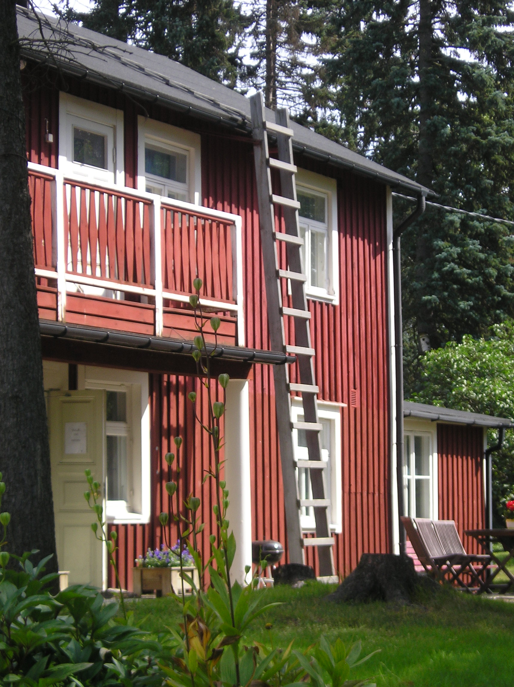 The Red Villa, formerly part of Lauttasaari Manor, is now one of the oldest buidings in Helsinki, Finland (1793)